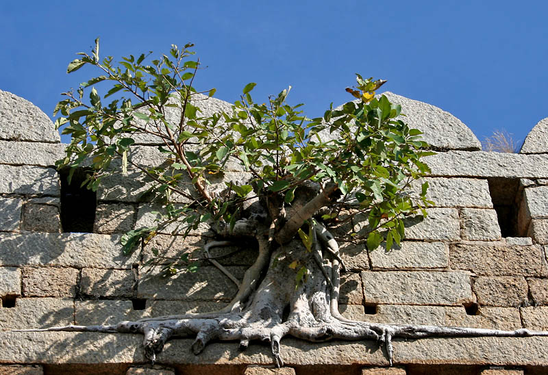 Name corrected as Ficus mollis in Bhongir Fort, Andhra Pradesh, India.